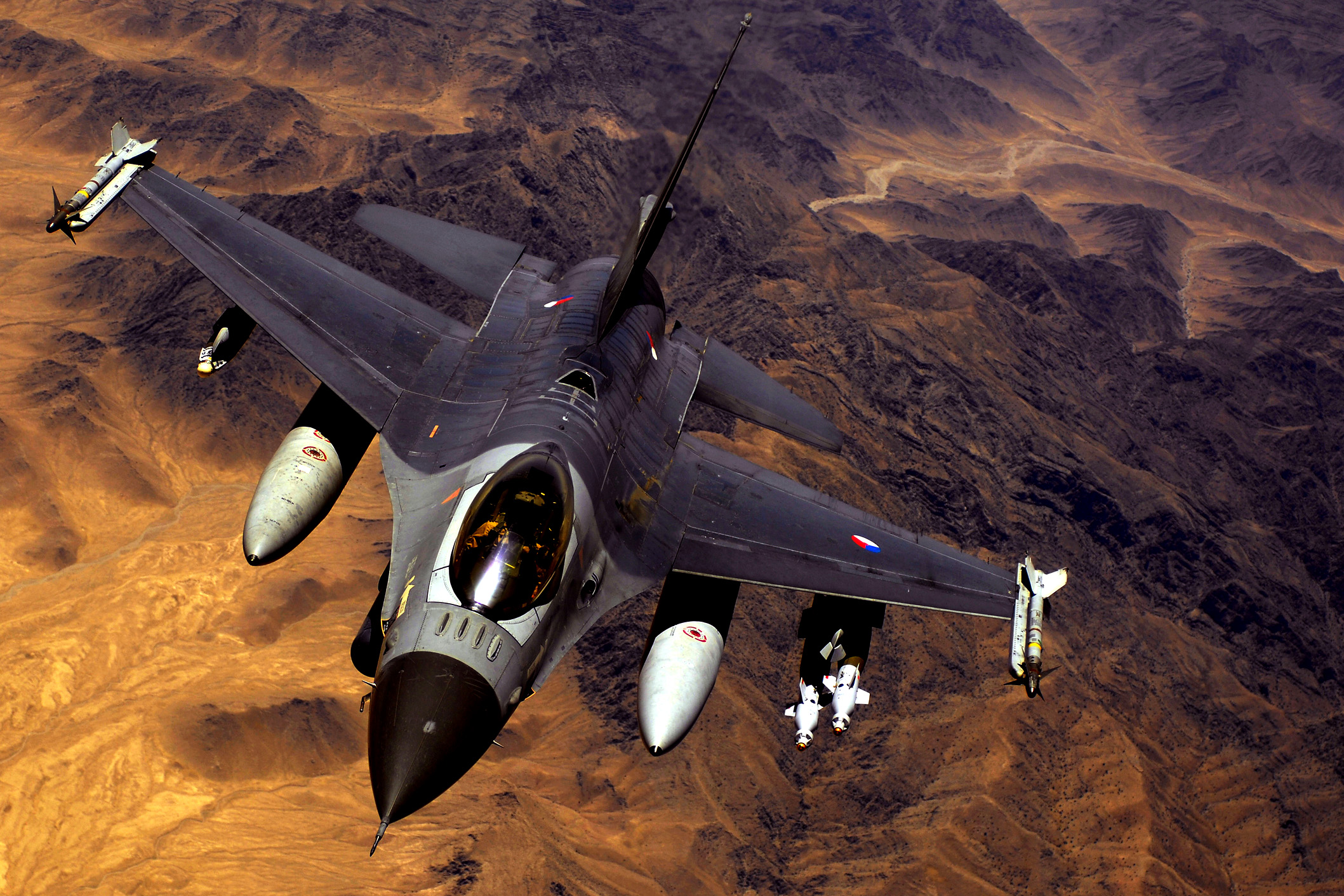 A Royal Netherlands Air Force F-16 Fighting Falcon aircraft conducts a mission over Afghanistan, May 28, 2008, after receiving fuel from a KC-135R Stratotanker aircraft. The KC-135R is assigned to the 22nd Expeditionary Air Refueling Squadron, 376th Air Expeditionary Wing deployed from Fairchild Air Force Base, Wash.